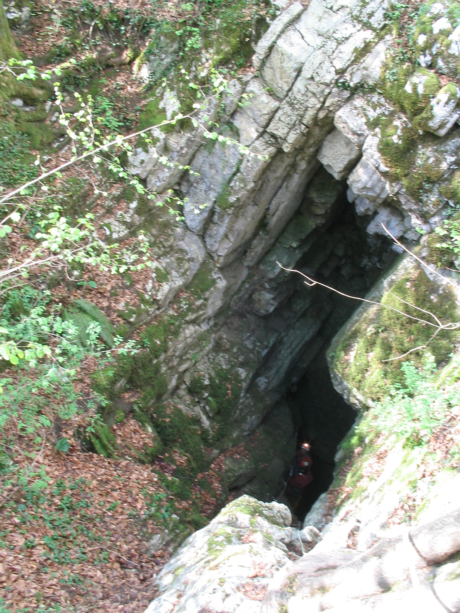 'Baume des Crêtes' cave (entrance), Deservillers, Doubs, Franche-Comté, France. Entrance to subterranean river Verneau